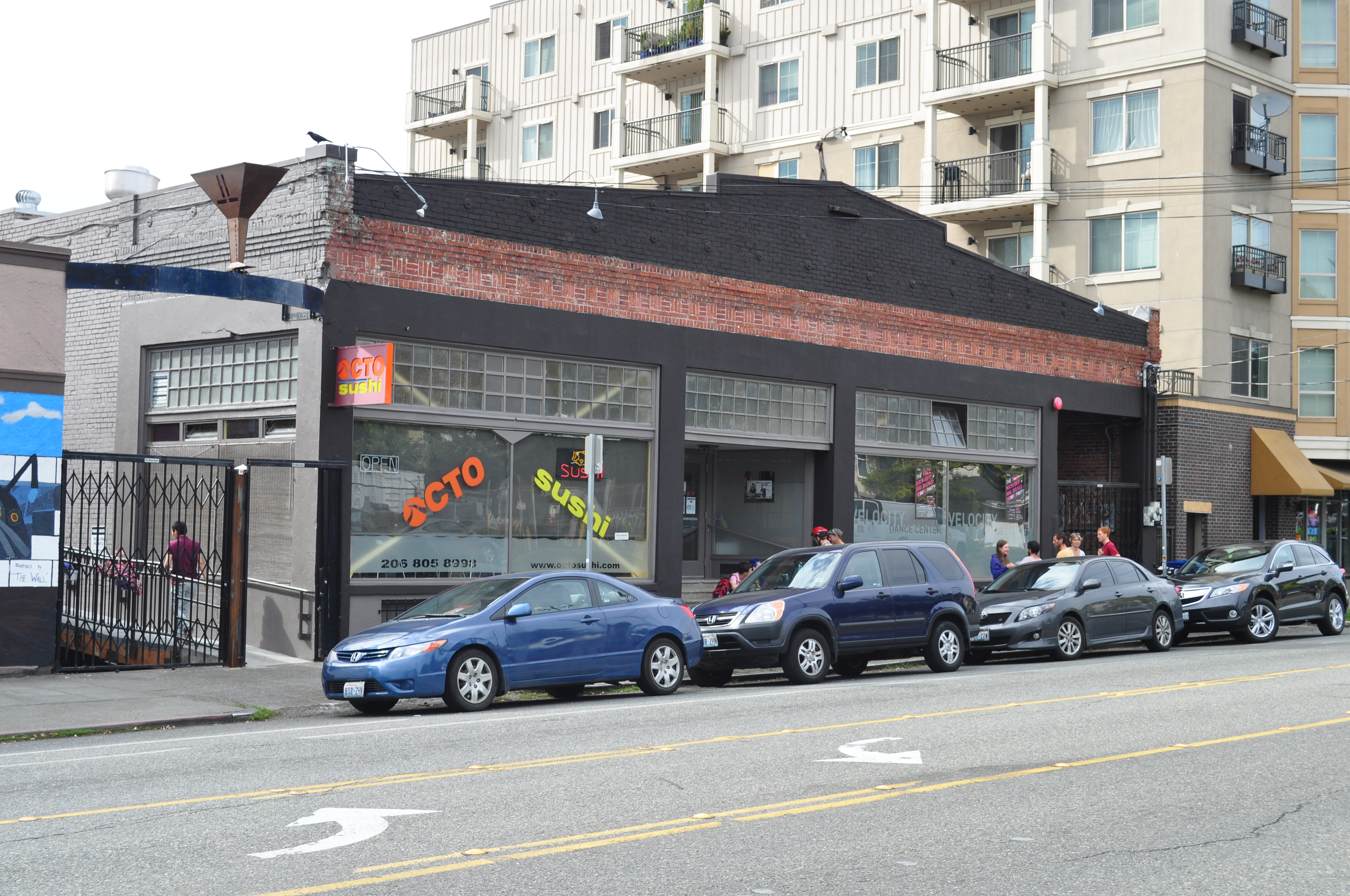 1621 12th Avenue, Seattle, Washington, USA. The former Capitol Hill Arts Center (and before that an automotive business), now Octo Sushi and Velocity Dance.